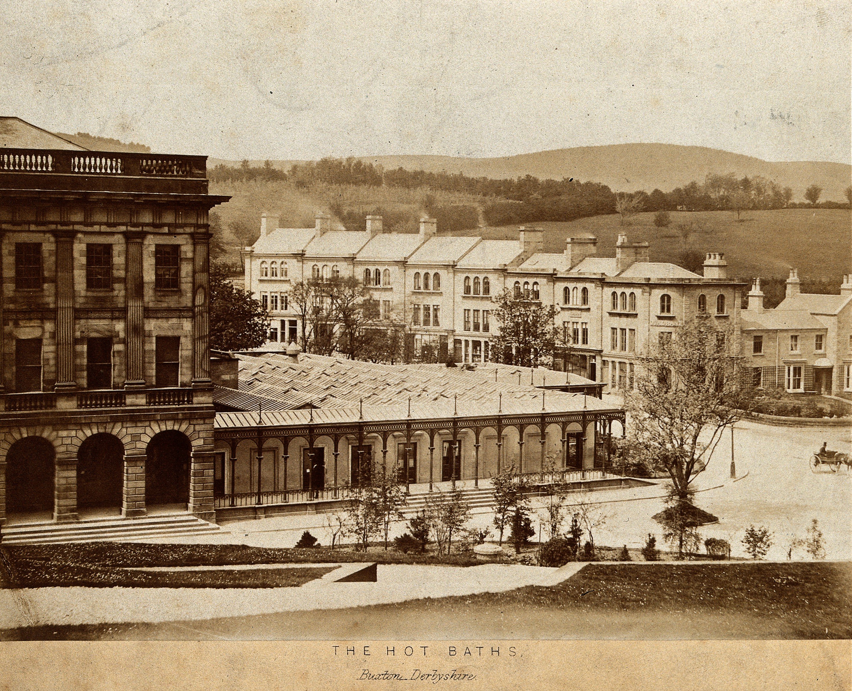 Hot baths in Buxton, Derbyshire: the exterior of the buildings viewed from a hill opposite. Photograph by Poulton. Iconographic Collections Keywords: Bemrose & Son.; Poulton.